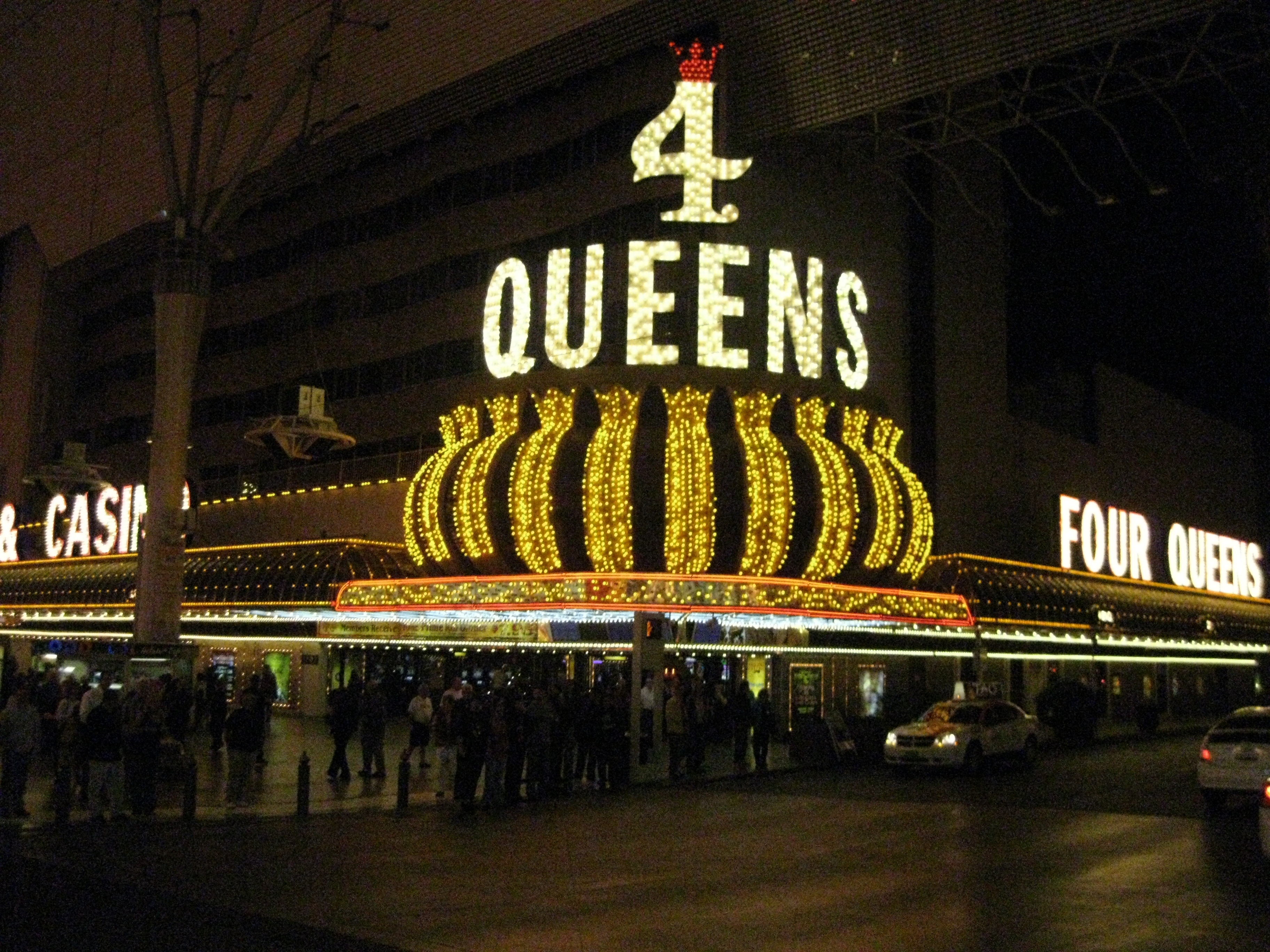 The Four Queens Hotel and Casino